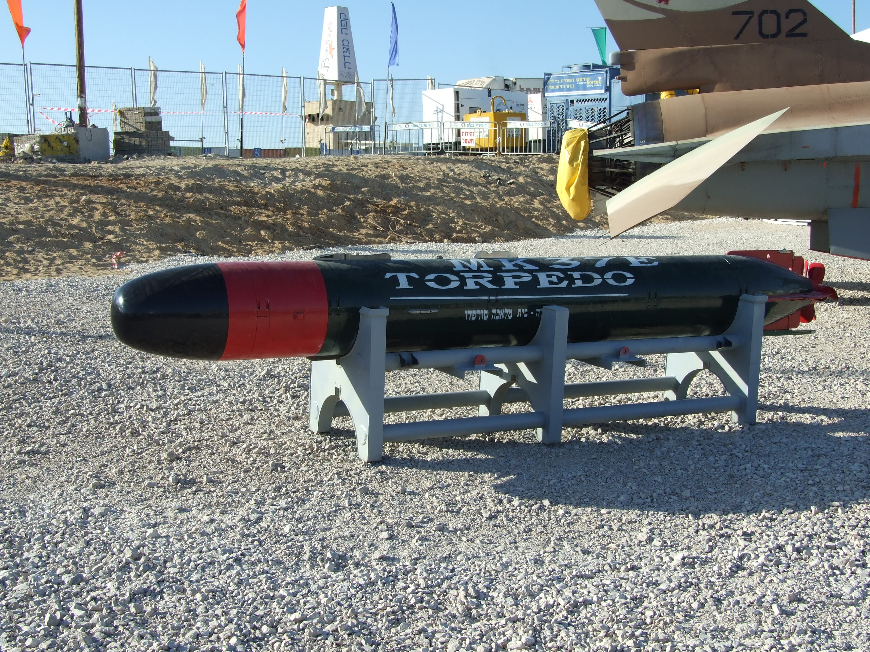 Torpedo mark 37e of Israel.